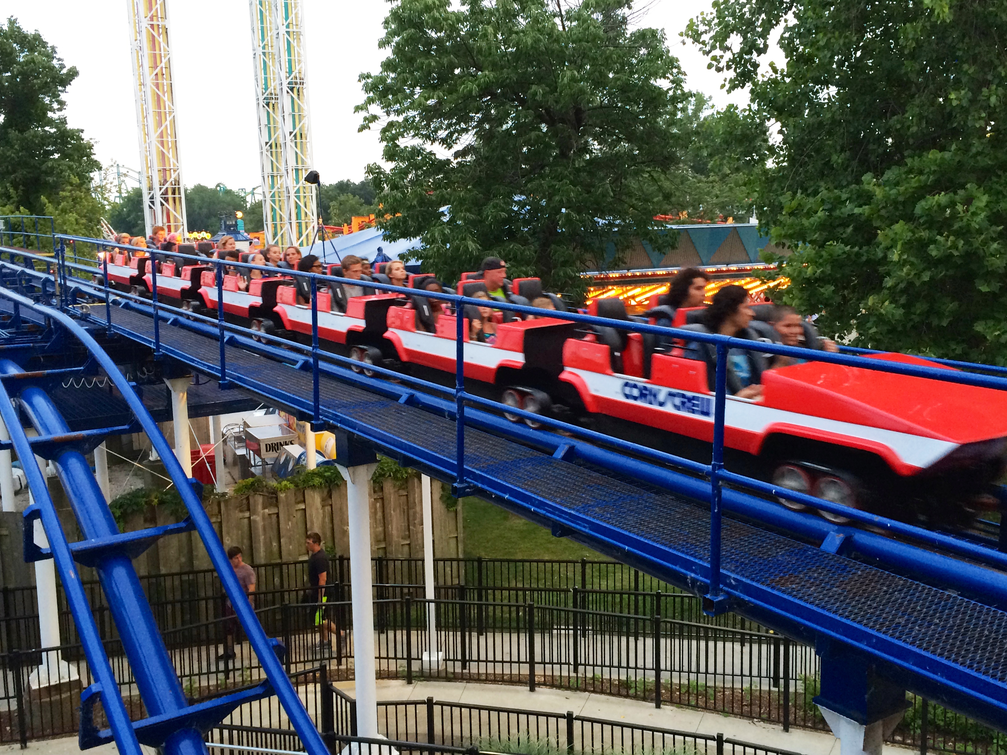 Corkscrew train returning to station in Cedar Point.